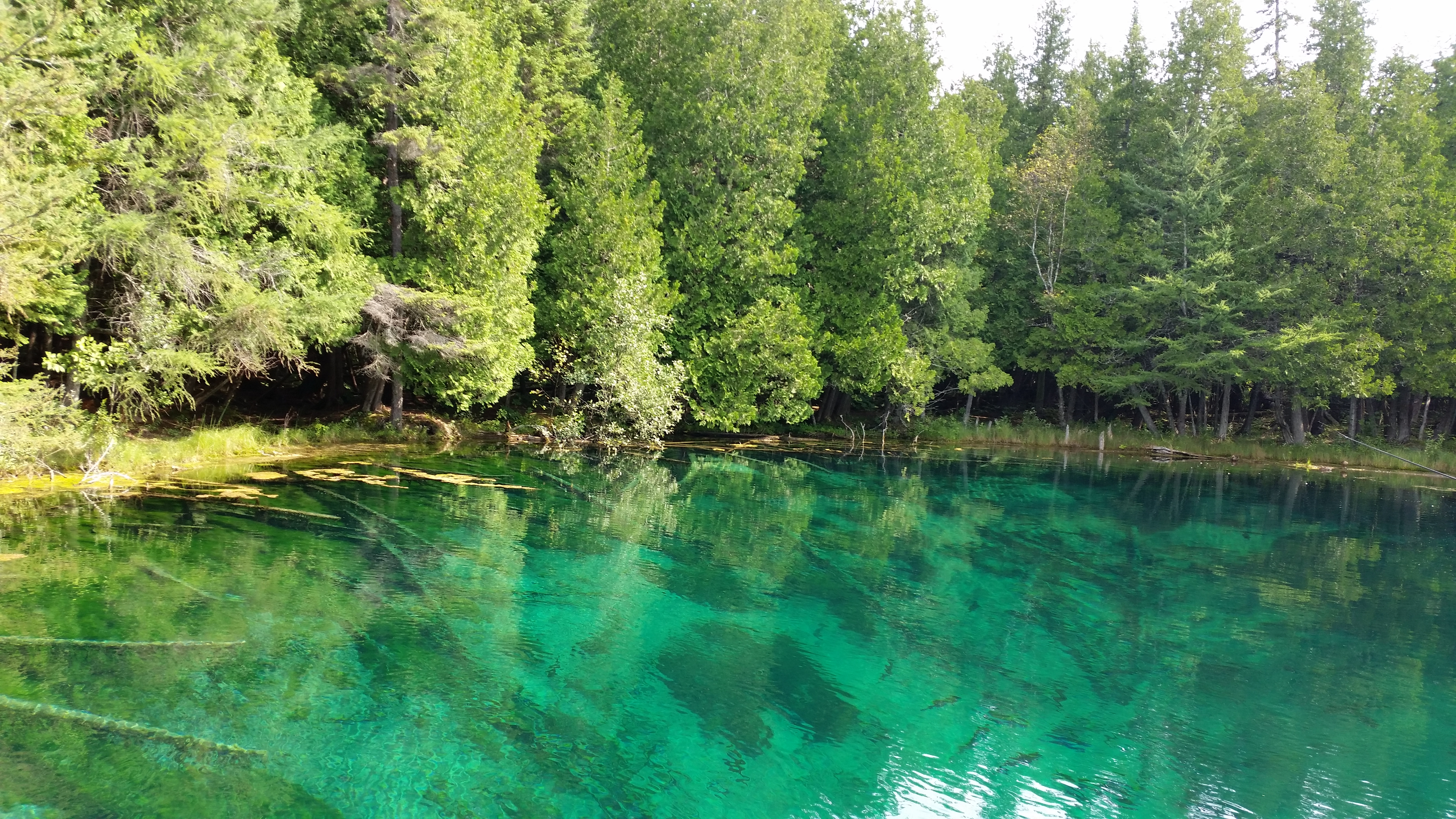 Depicted place: Kitch-iti-kipi